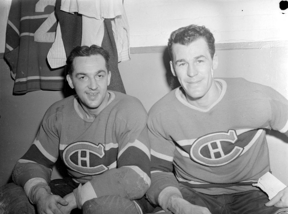 We see two hockey players from Montreal Canadian sitting in the sports changing room.